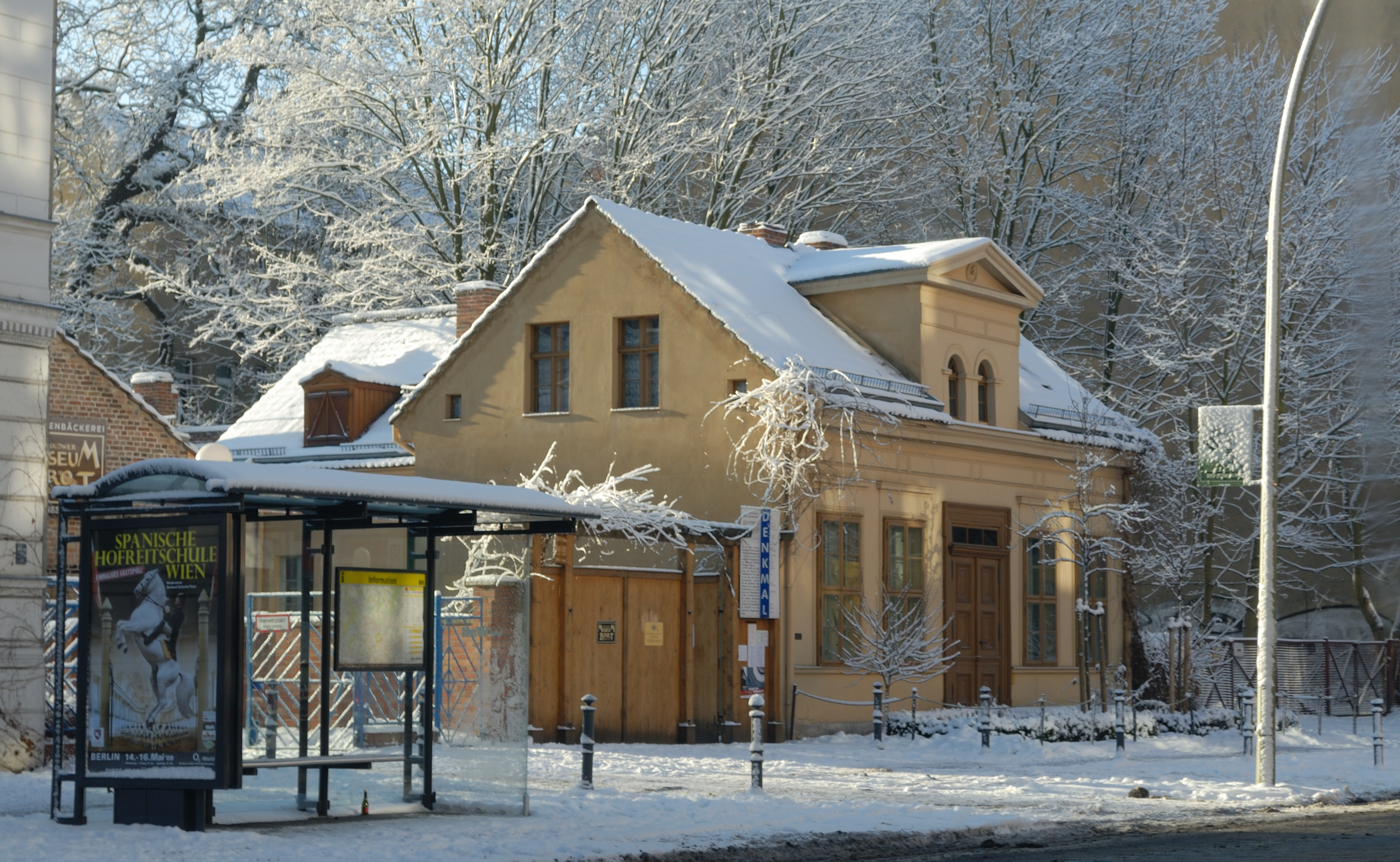 Old Bakery in Berlin-Pankow.